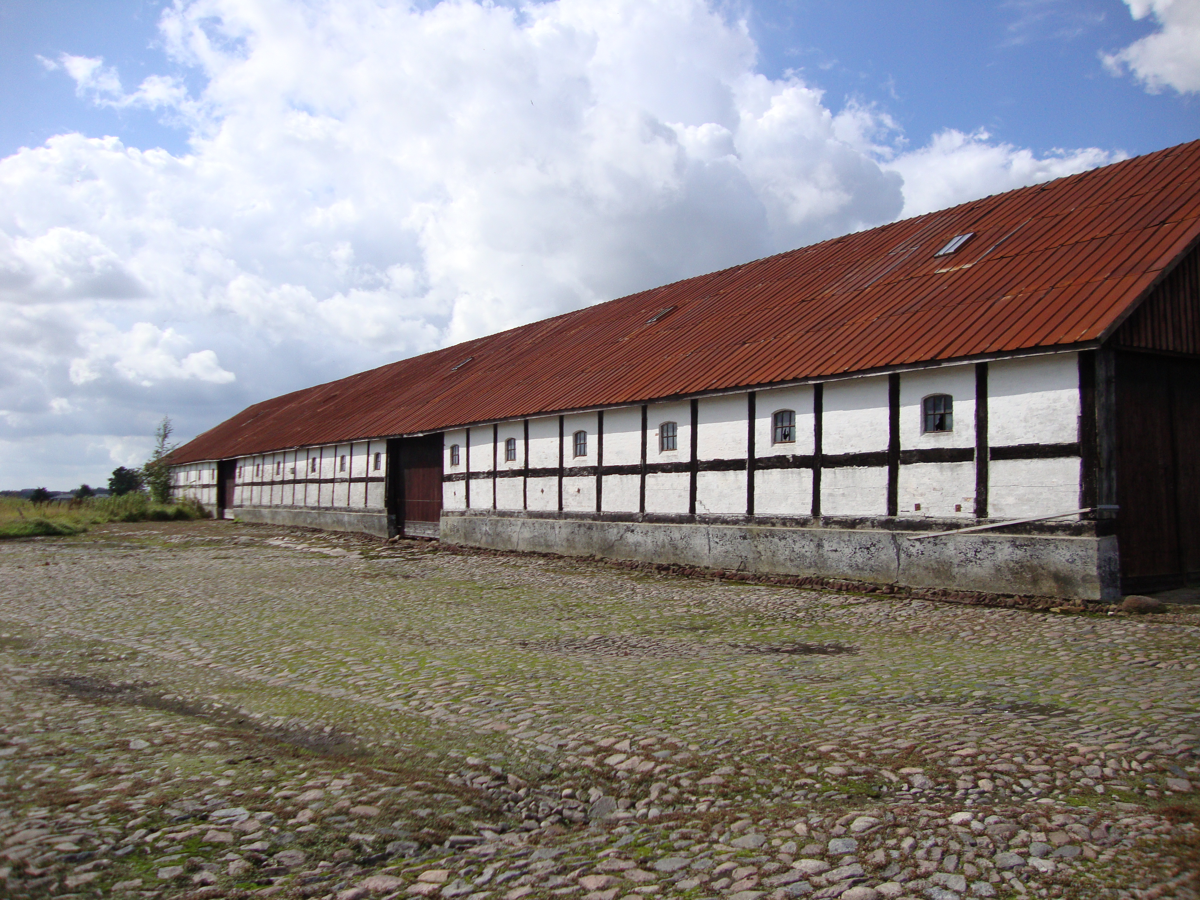 The remains of Hjermitslevgaard i Øster Hjermitslev, Vendsyssel, Denmark